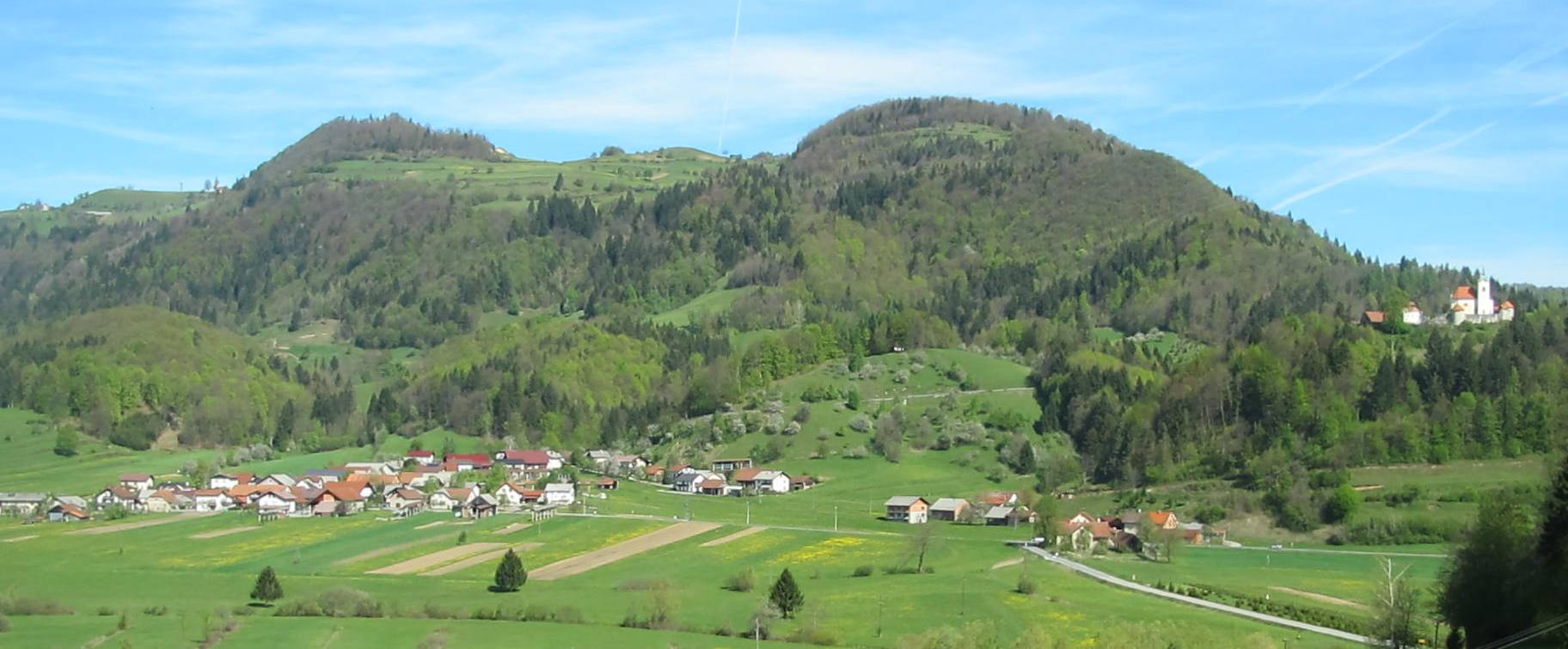 Zaklanec, Municipality of Horjul, Slovenia and the Church of St. Ulrich in the neighboring settlement of Podolnica